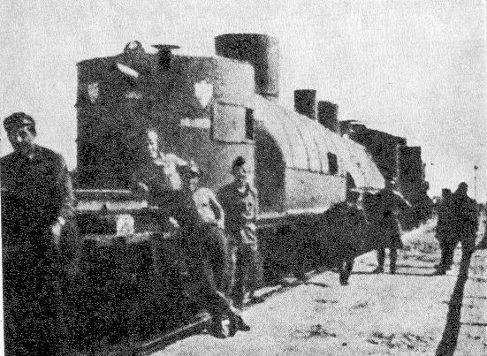 Polish armoured train Hallerczyk from the Polish-Soviet war, 1920 (wrong filename).